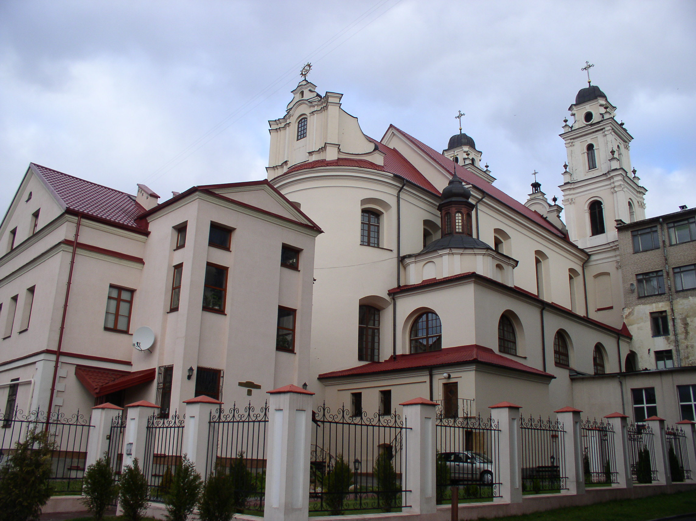 Archcathedral of Name of the Blessed Virgin Mary. Minsk, Belarus.